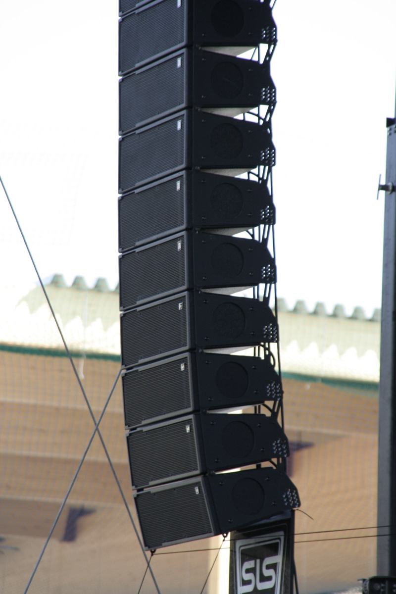 SLS Audio - LS8800 full-range bi-amped true line source array module